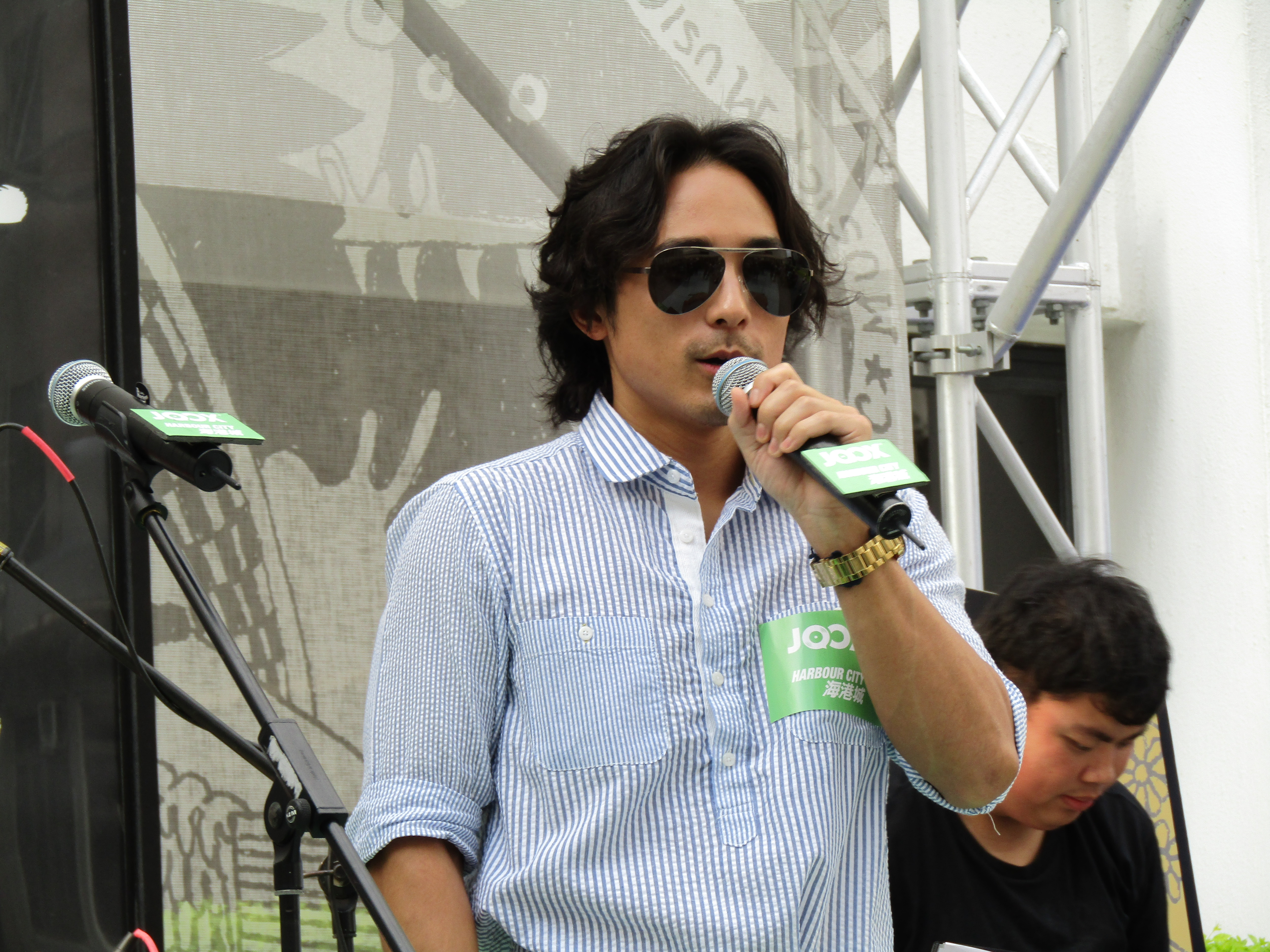 Alex Lam is in The Gateway, Harbour City